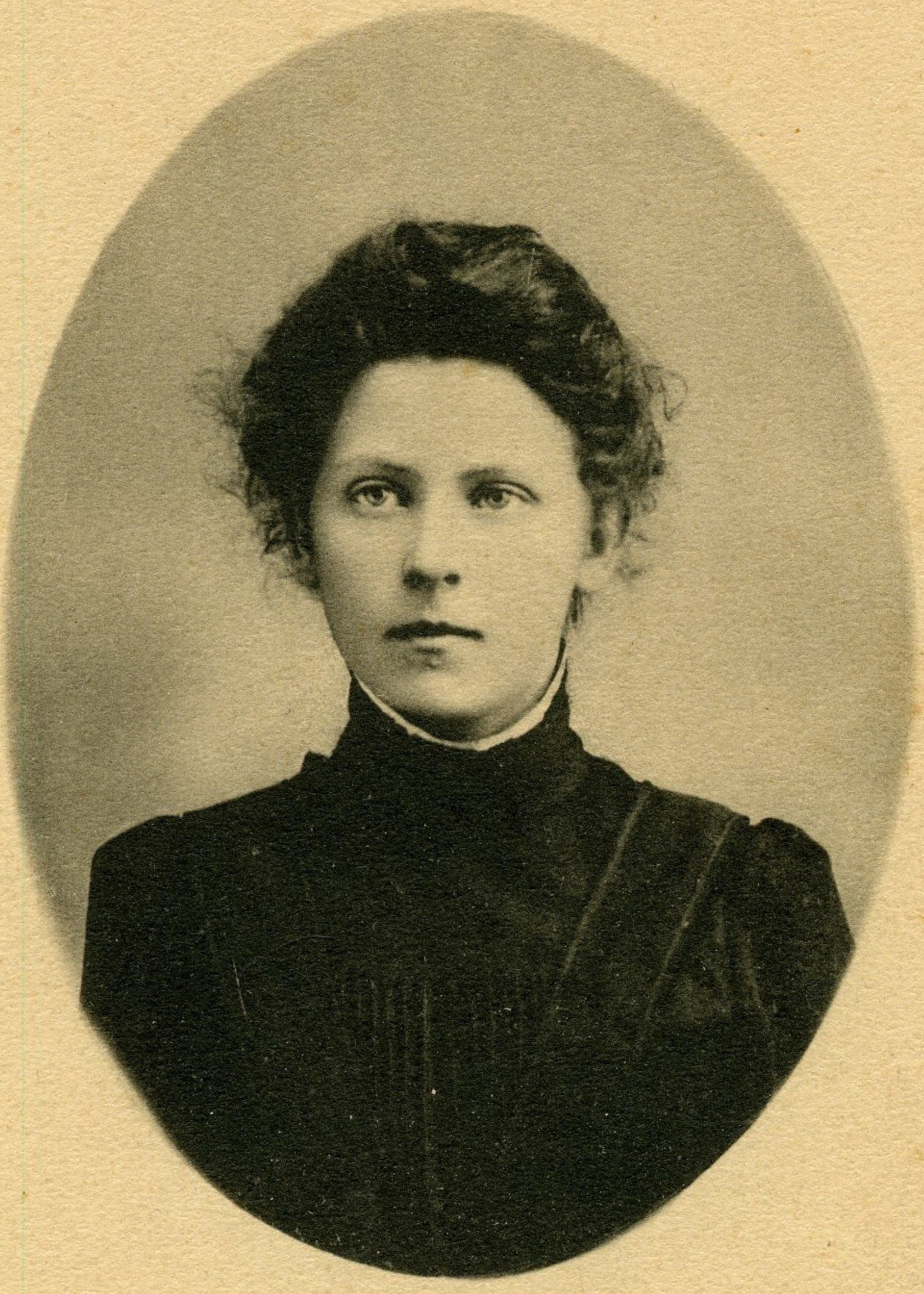 Maria Alexandrovna Spiridonova